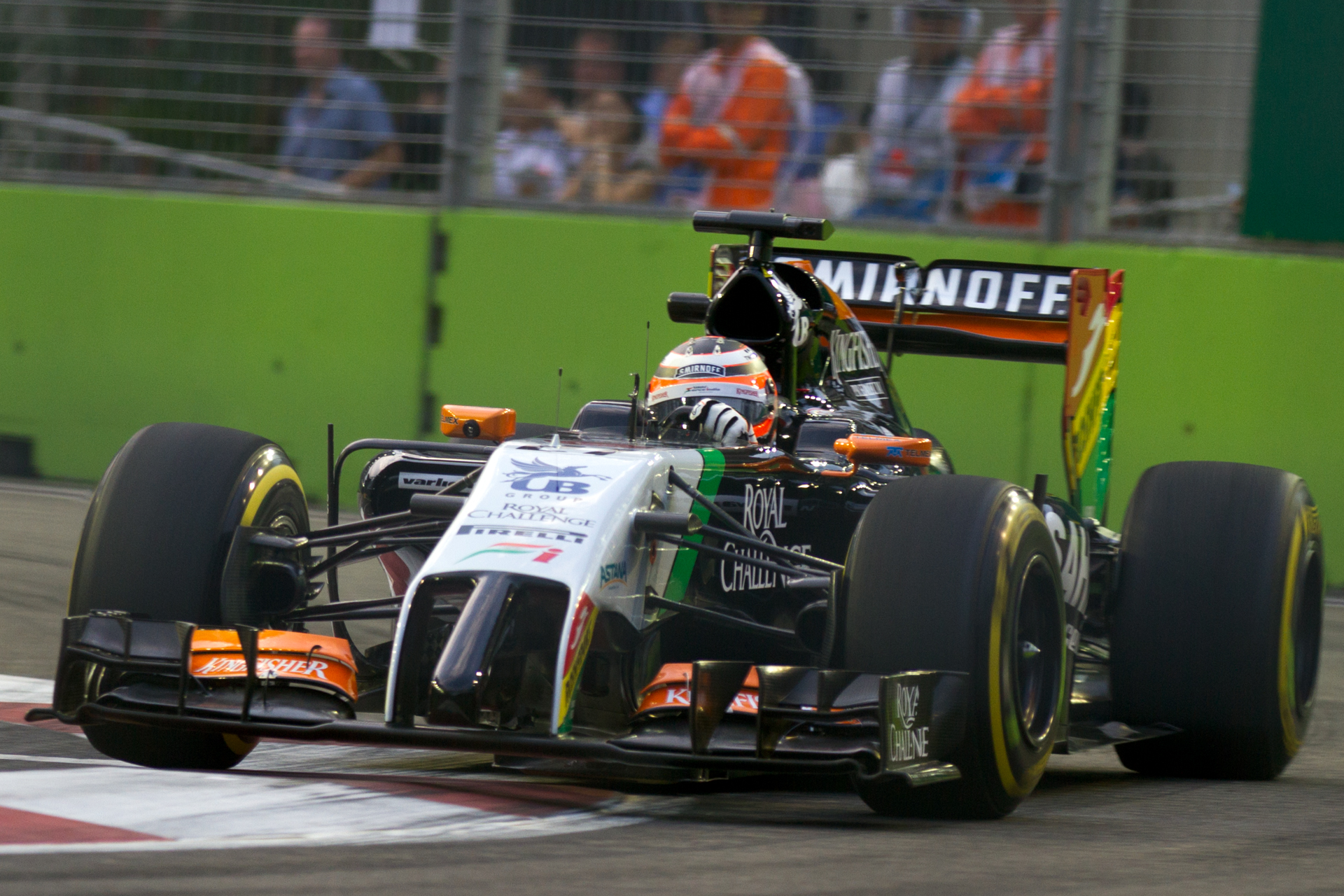 Formula One 2014 Rd.14 Singapore GP: Nico Hülkenberg (Force India)